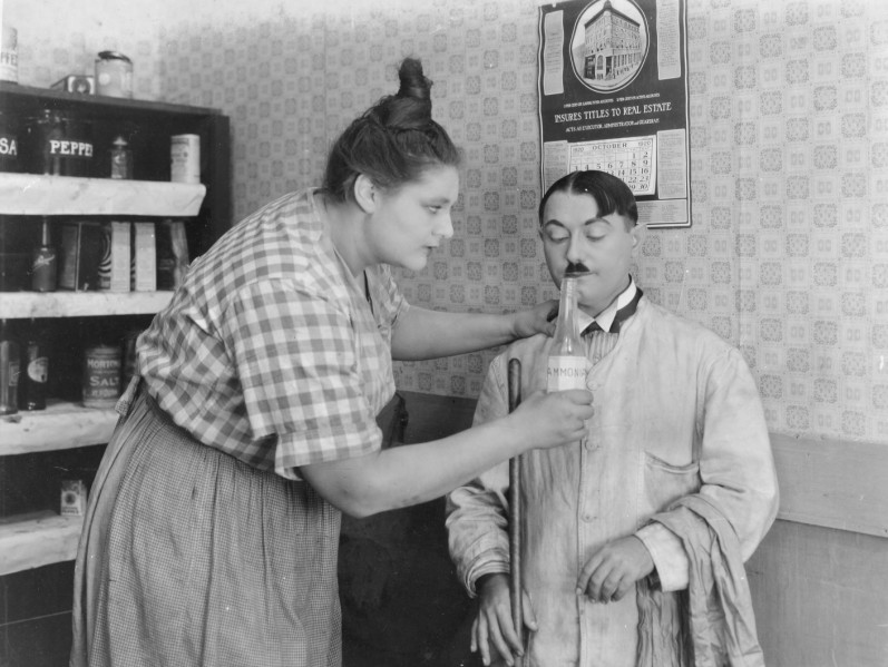 Betzwood Film Studio film still featuring Wilna Hervey as Katrinka from the "Toonerville Trolley" movies. From the Betzwood Collection, Archives and Special Collections, Libraries of Montgomery County Community College, Pennsylvania.